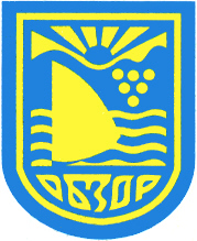 city arms of Obzor (Bulgaria)